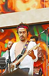 asdfgsasdf